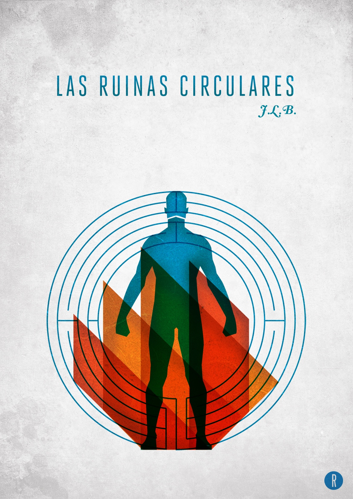 Poster inspired by the short story "The Circular Ruins," by Jorge Luis Borges. Junín, Buenos Aires, AR. The poster was created approximately seventy years after the publication of the story and twenty-five years after Borges death.